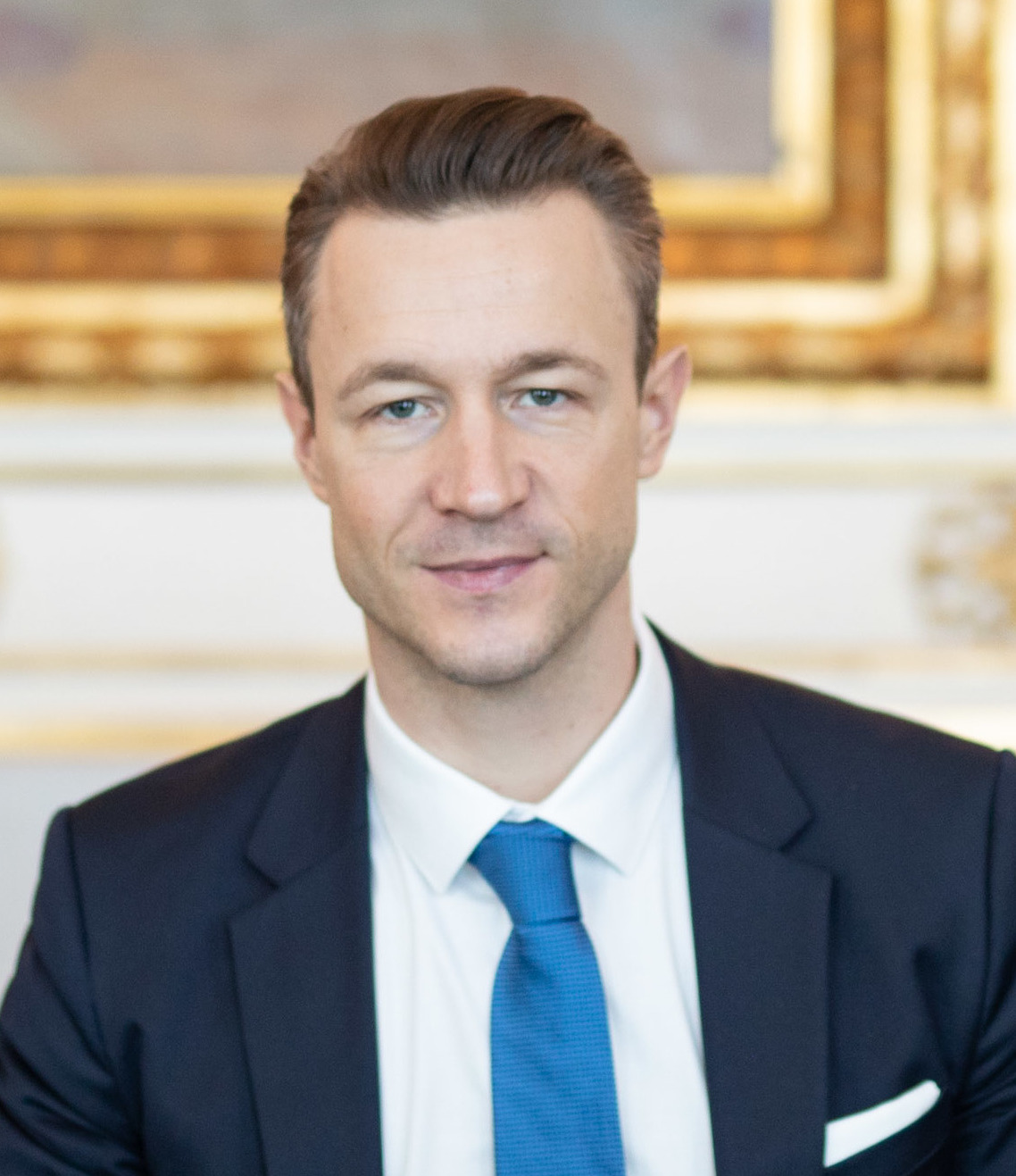 Fotocredit: BKA